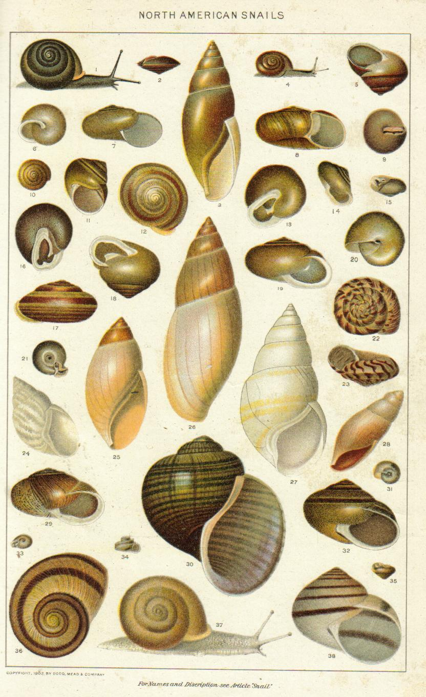 Plate of North American gastropods.